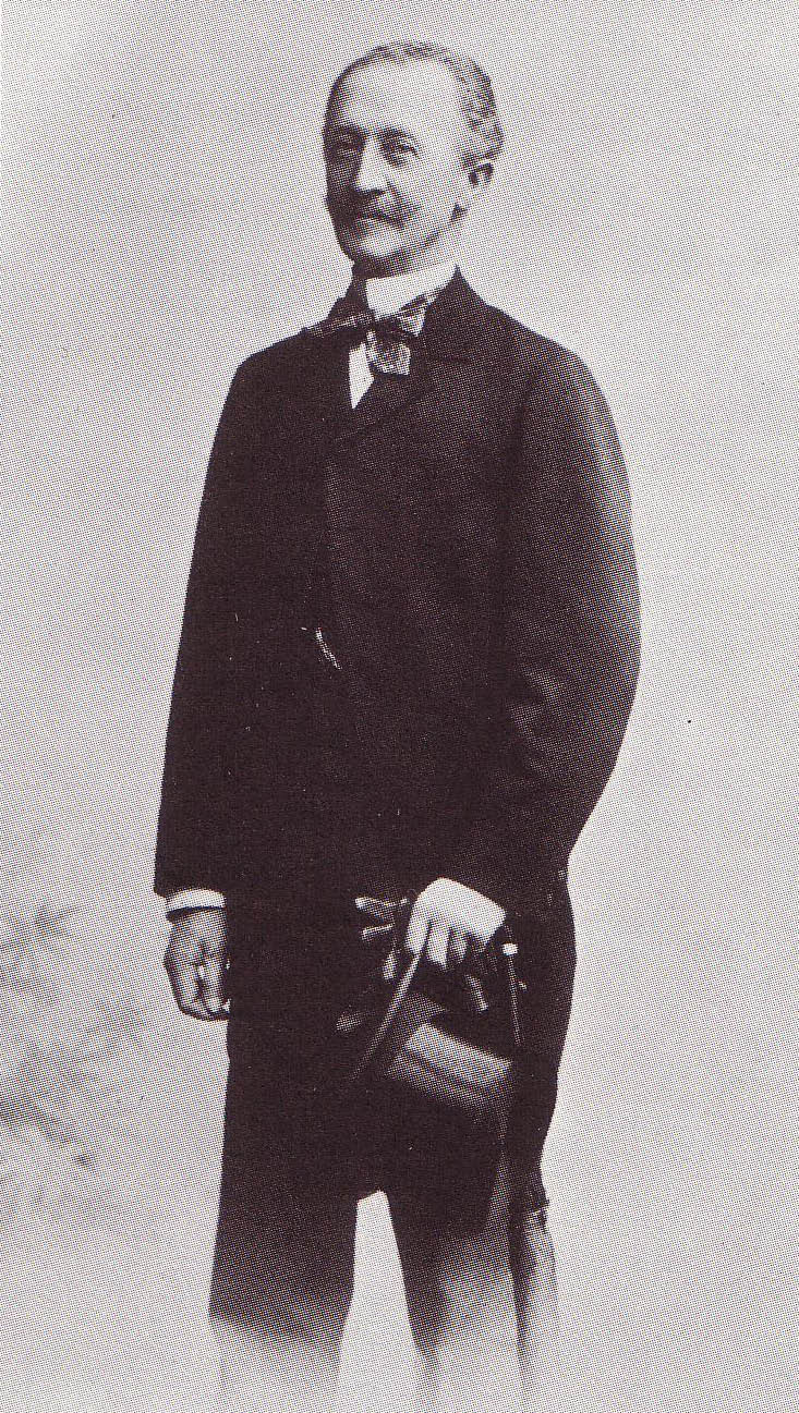 Werner von der Schulenburg (1841-1913), member of the prussian Herrenhaus (first chamber)